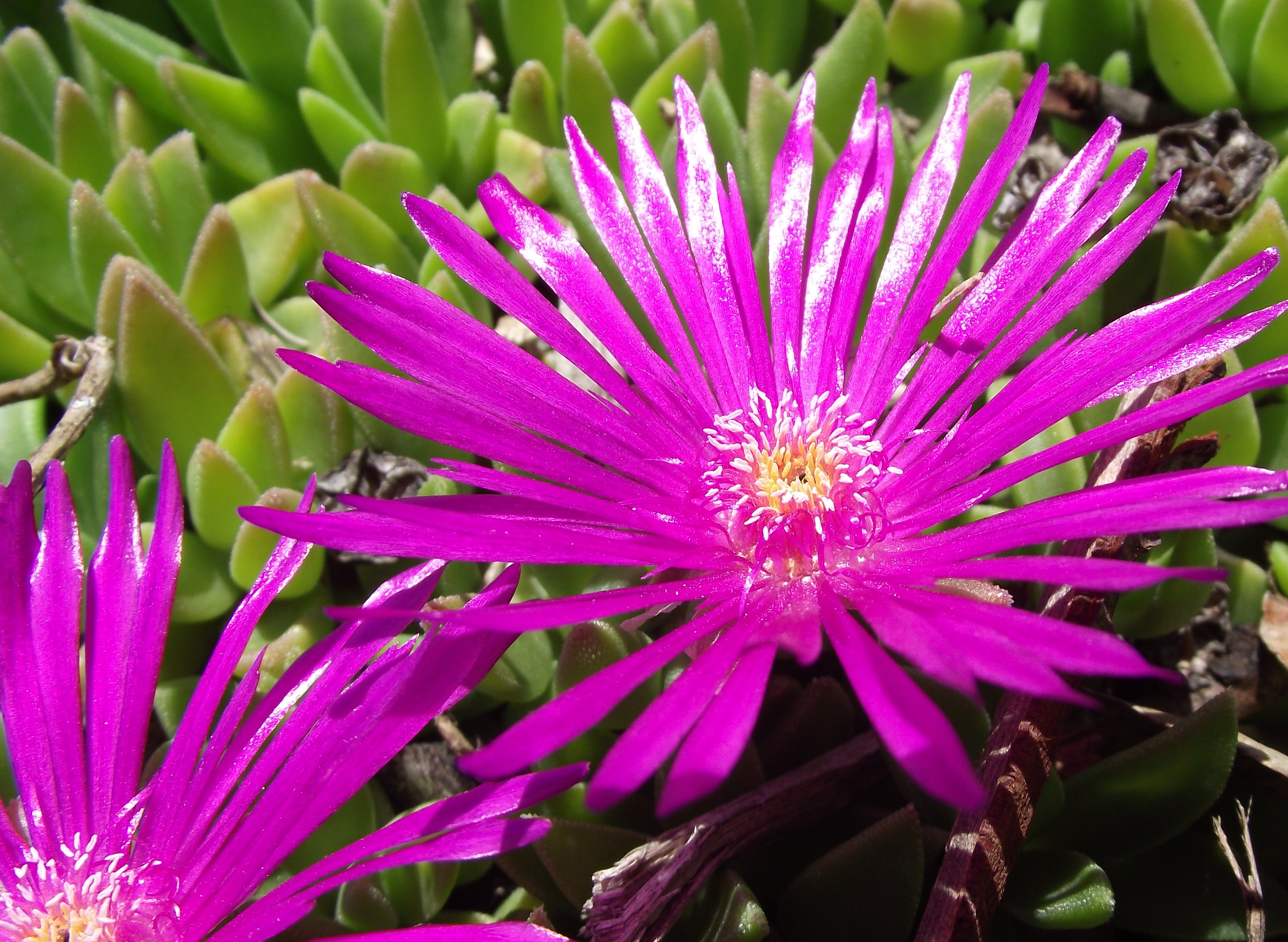 Delosperma lavisiae at the UC Botanical Gardens, Berkeley, California, USA. Identified by sign.